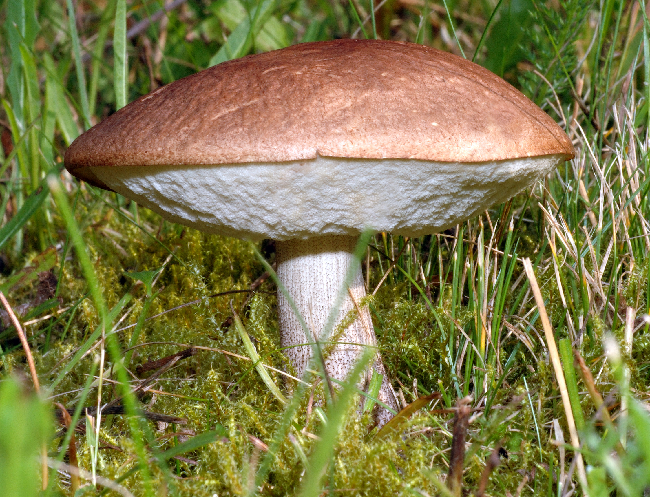 This image shows a Shaggy boletus (Leccinum scabrum). Thanks to EricSteinert for identifying this mushroom.